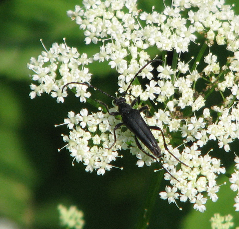 Leptura aethiops male